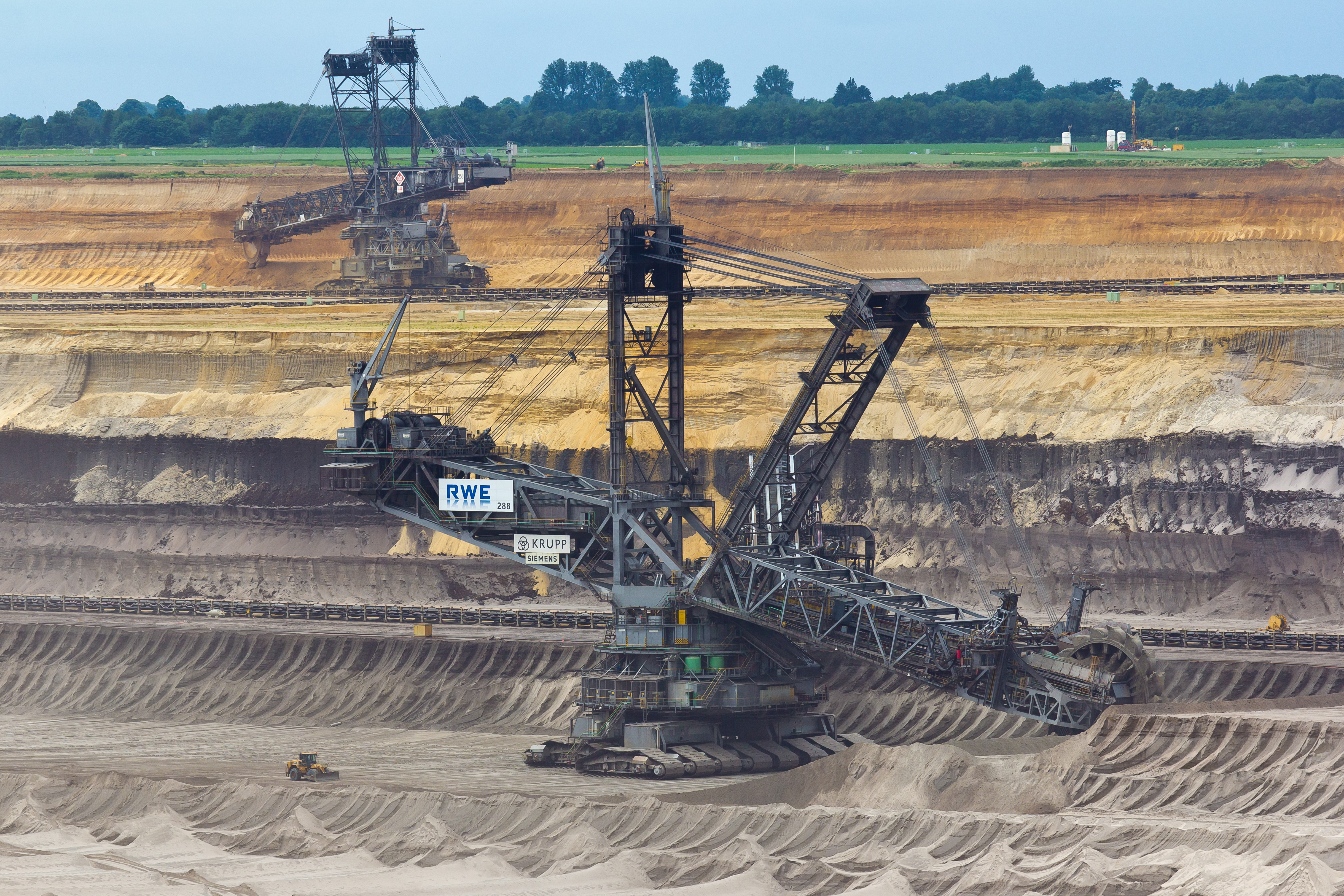 Bucket-wheel excavators 288 and 258 in Garzweiler surface mine